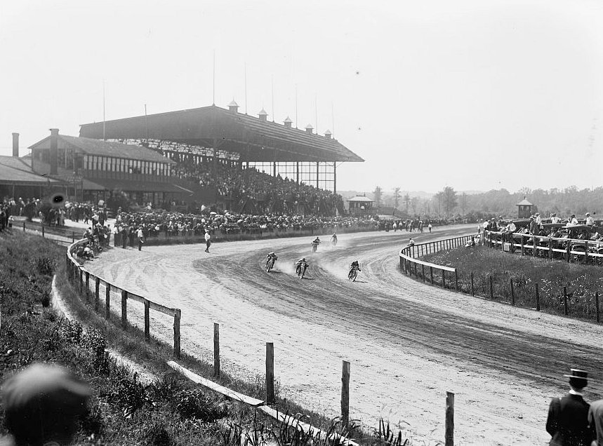 Benning Race Track in Washington, D.C. Also used for car and motorcycle racing